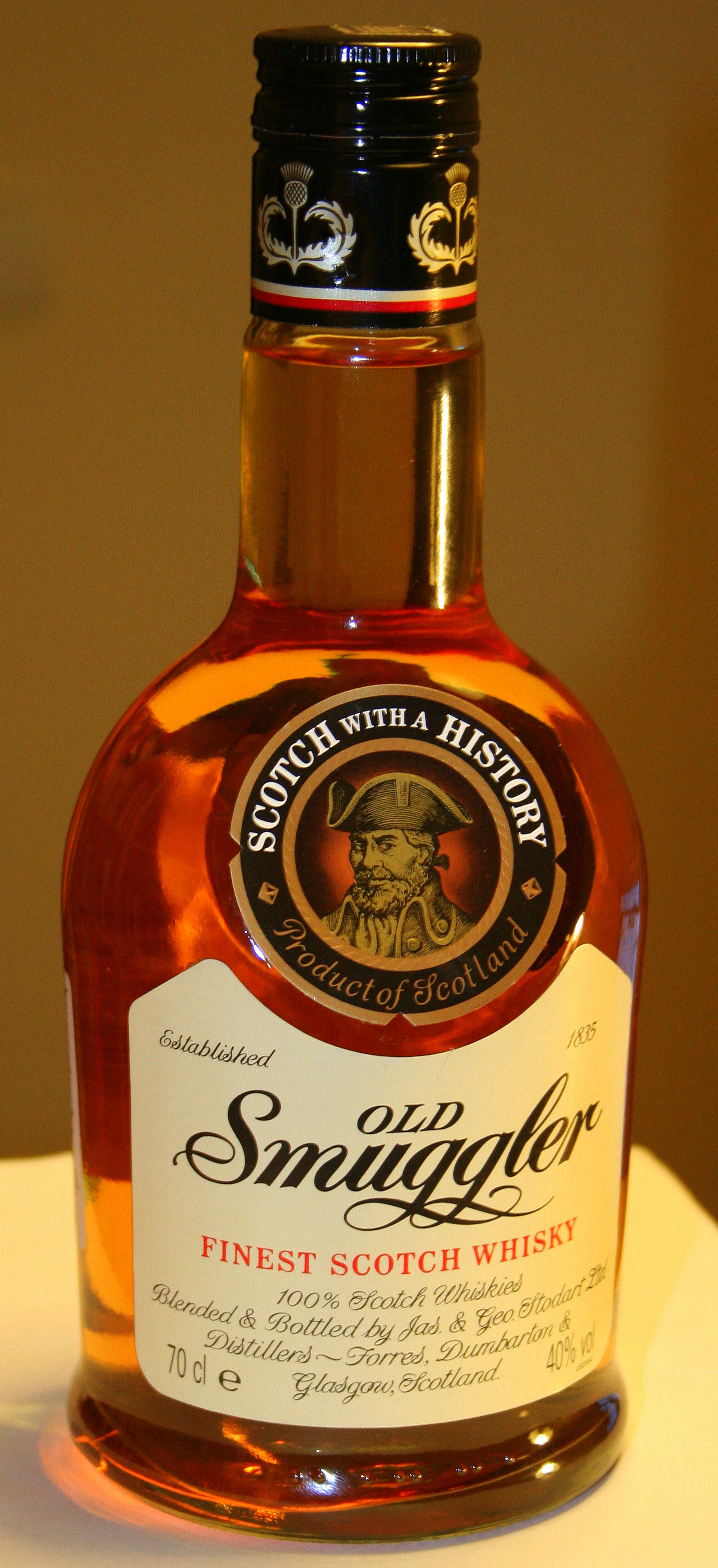 Scotch Whisky Old Smuggler